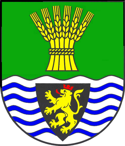 Coat of arms of the municipality Reußenköge in Schleswig-Holstein, Germany.